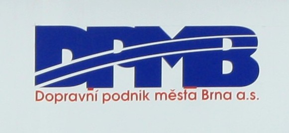 Logo of Dopravní podnik města Brna, Lipsko ship at Brno Reservoir, Brno, Czech Republic This photograph was taken with DSLR from WMCZ's Camera grant - OpenStreetMap(Info)